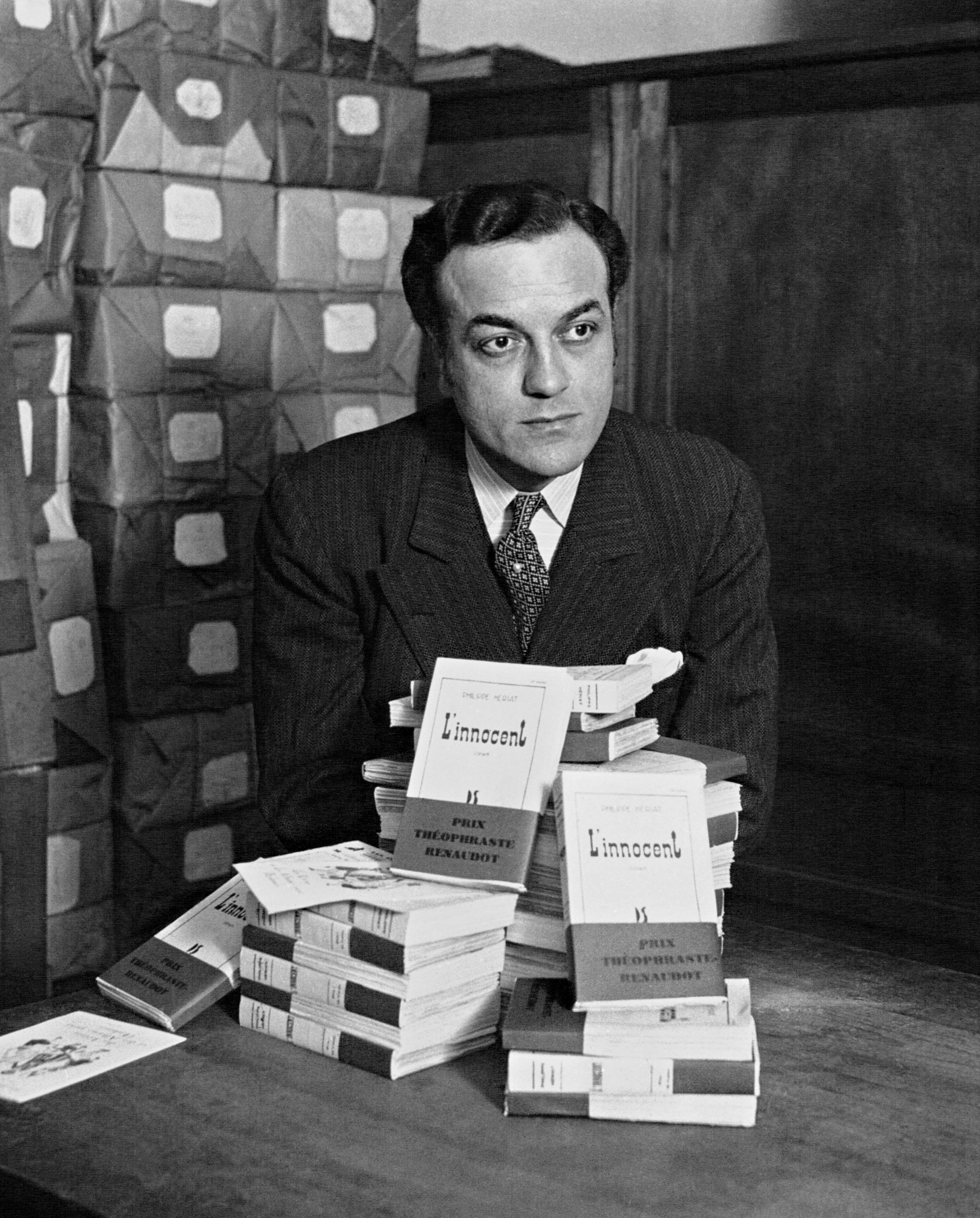 Philippe Hériat (1898-1971), French writer in 1931, the year he won the Renaudot prize. Restored and cropped print (2)